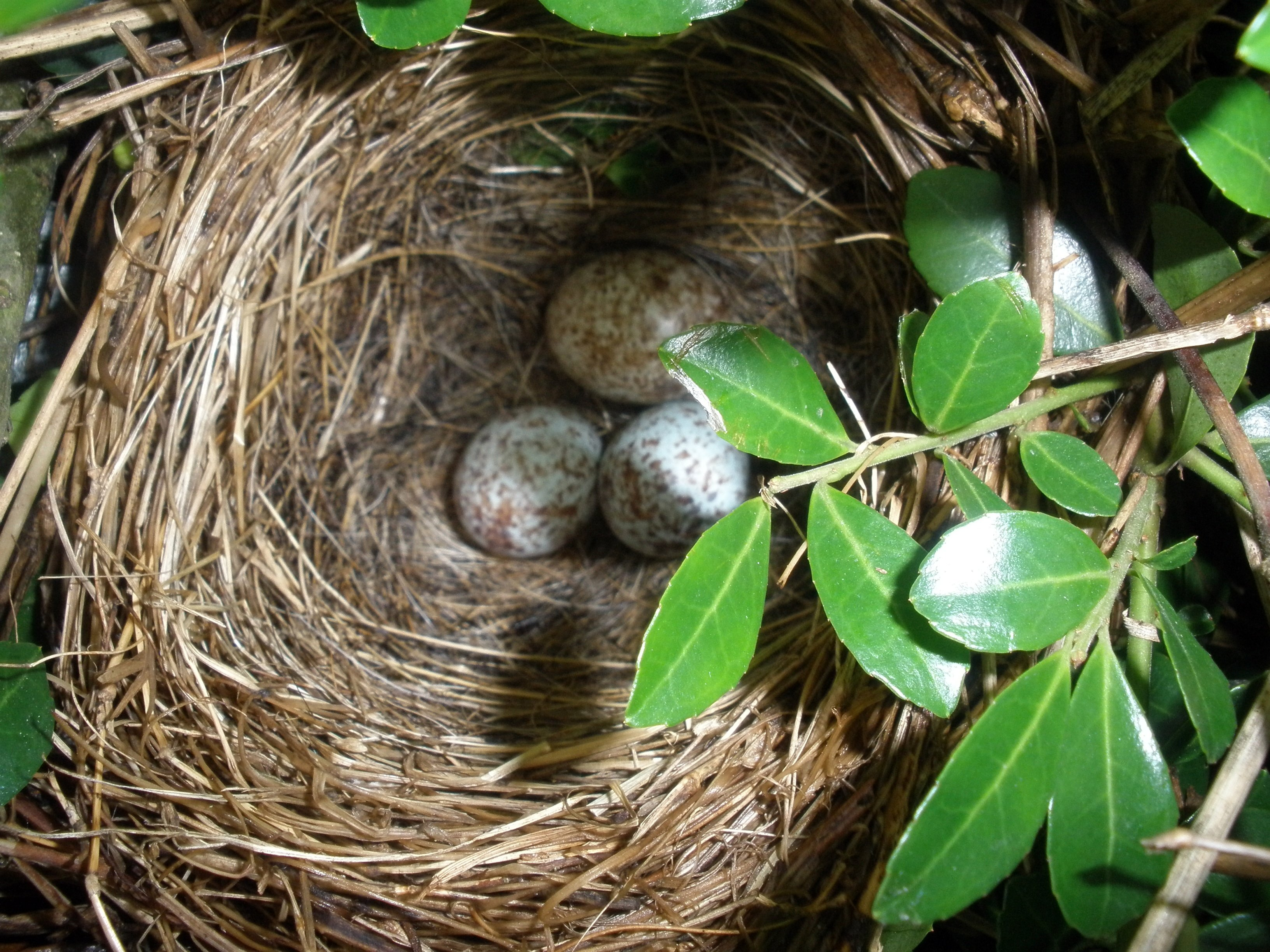 I was working in the garden and a little bird was not happy with me, I looked around and found that I was right next to her nest in the bush I was standing by.